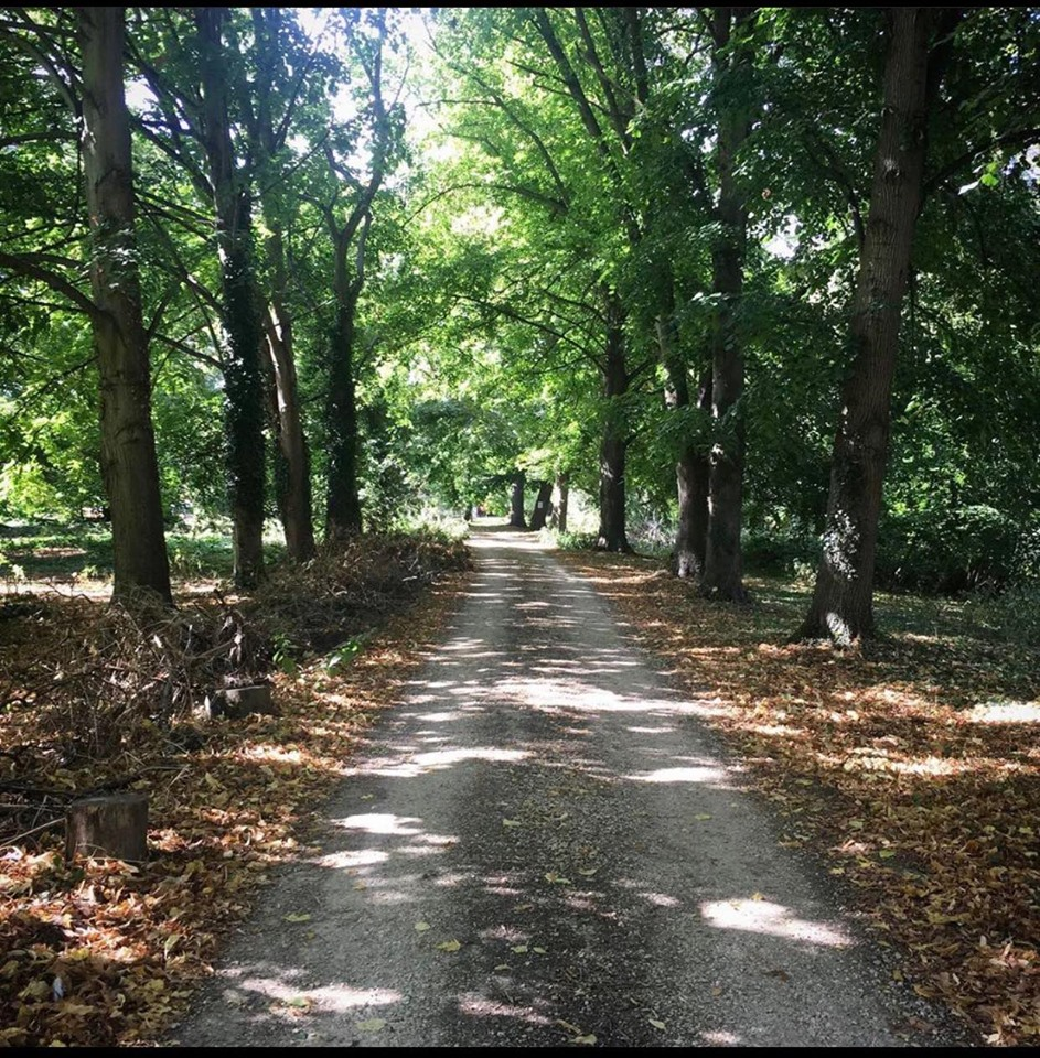 The Abbey, Sutton Courtenay, Oxfordshire, England